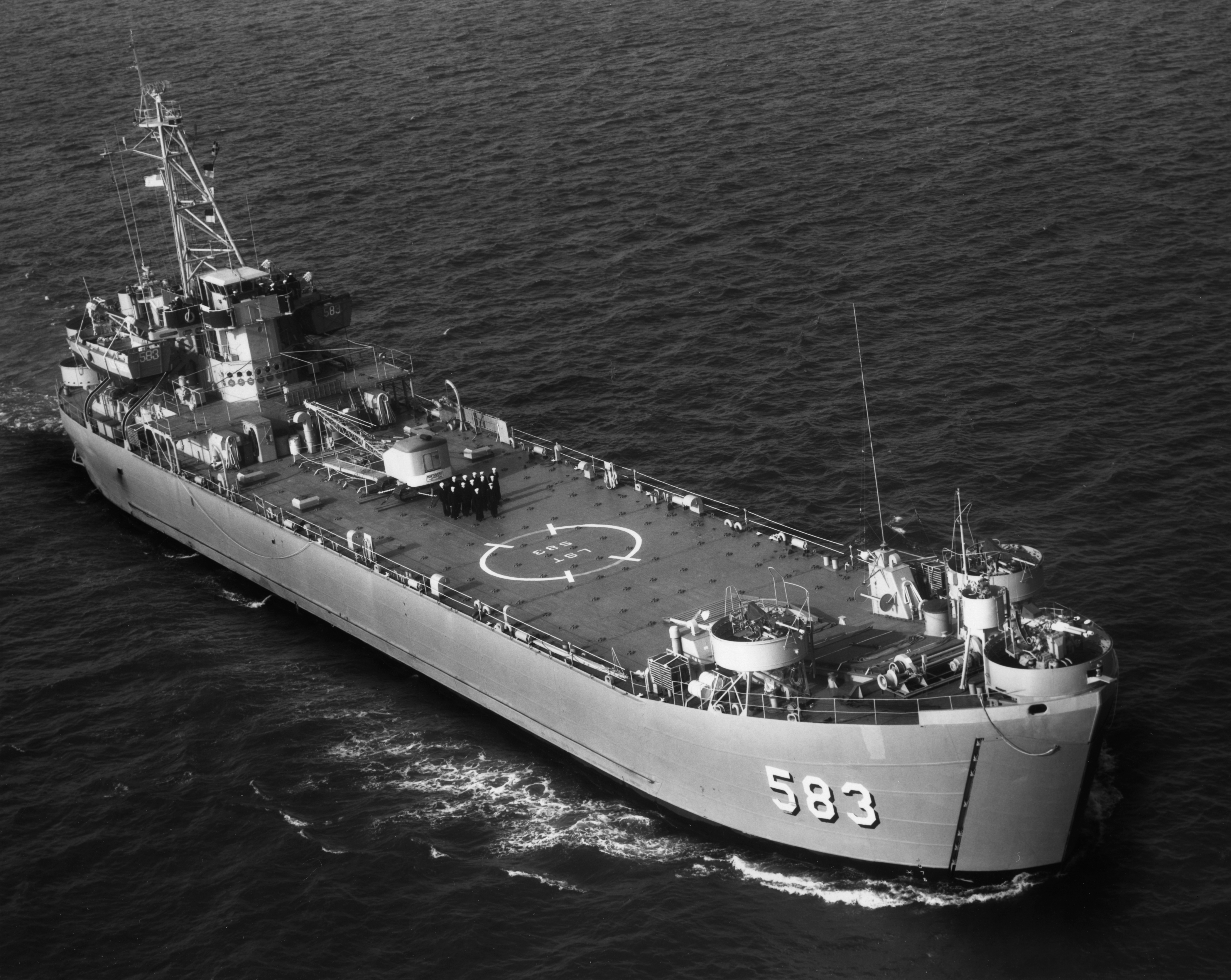 USS Churchill County (LST-583) under way